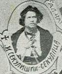 Portrait of IMARO member I.Sekulichki from Sekulitsa